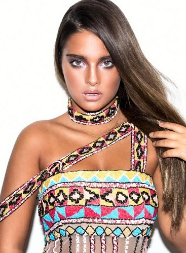 Israeli singer Noa Kirel in 2016